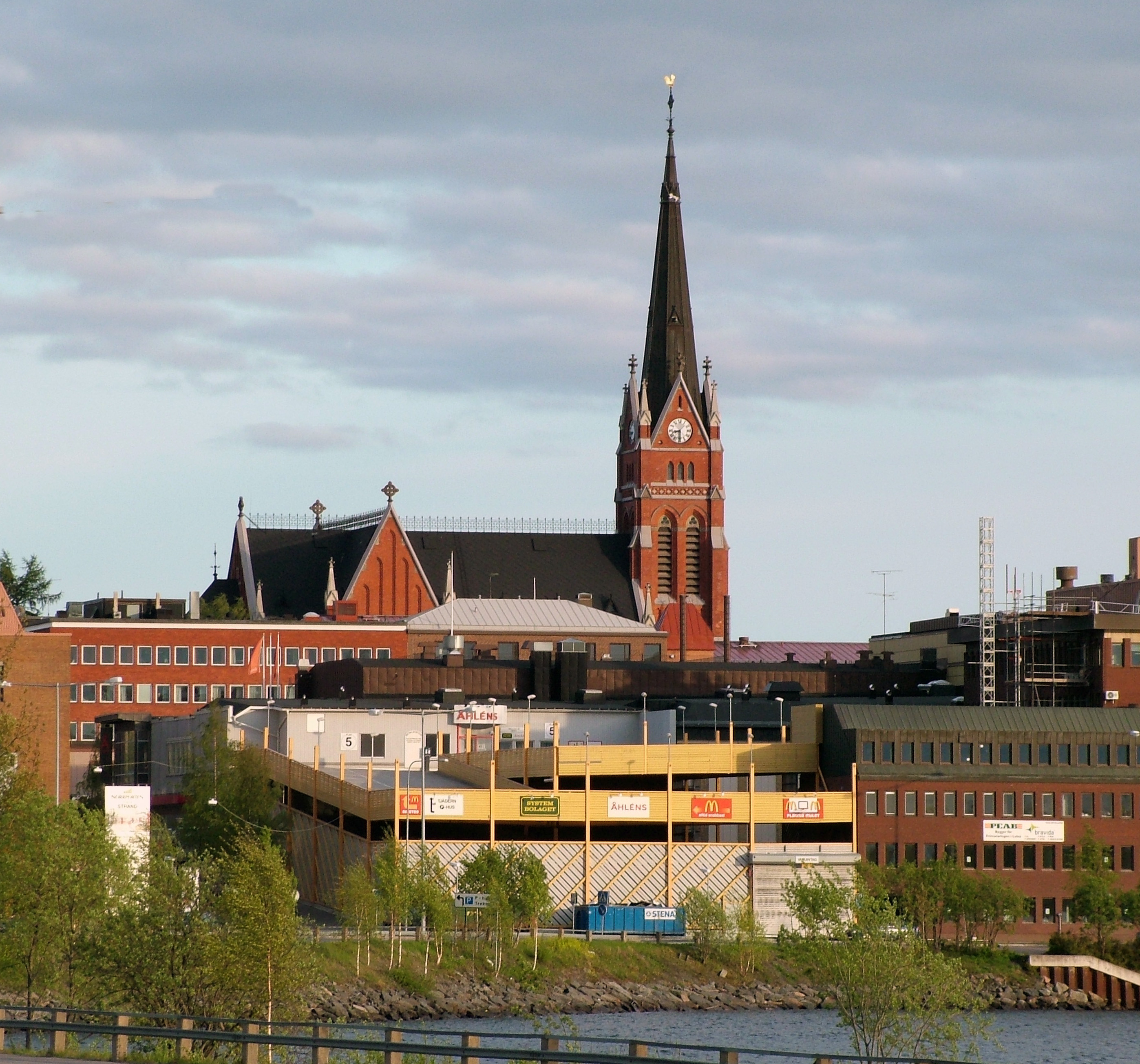 Die Kathedrale in Luleå / Schweden. Selber fotografiert am 08.06.2005. Cathedral of Luleå /Sweden